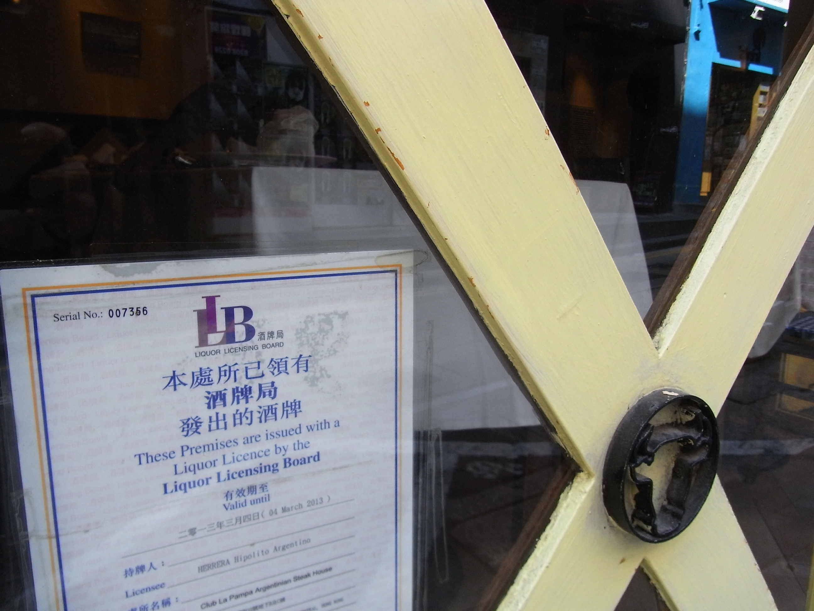 Staunton Street, Central Soho, Hong Kong